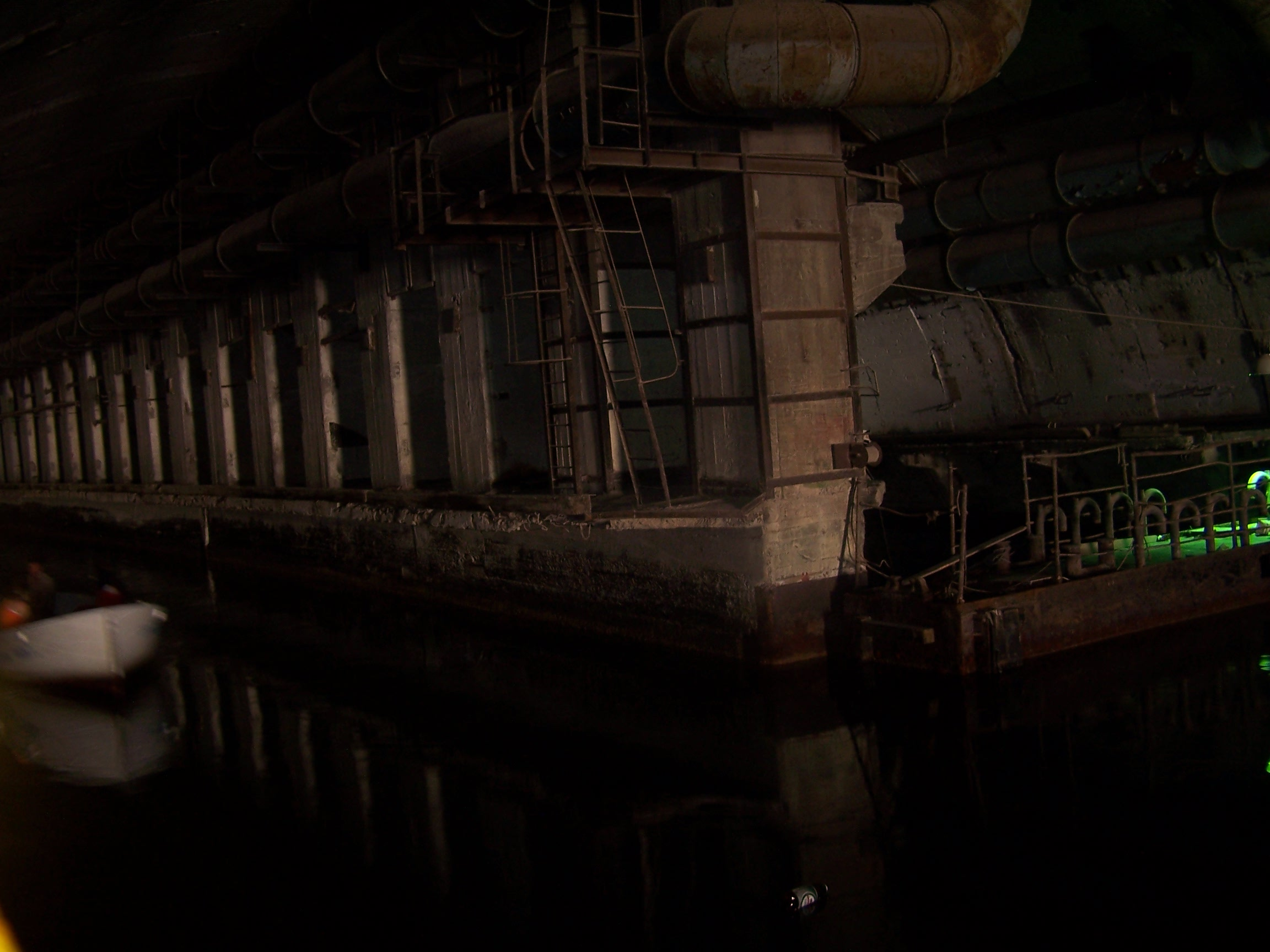 The Balaklava naval Museum (former anti-nuclear bunker for submarines). The dry dock in the bunker.